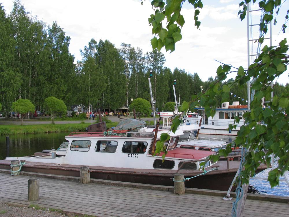 Kontiolahti harbour at Lake Höytiäinen in Kontiolahti, Finland.